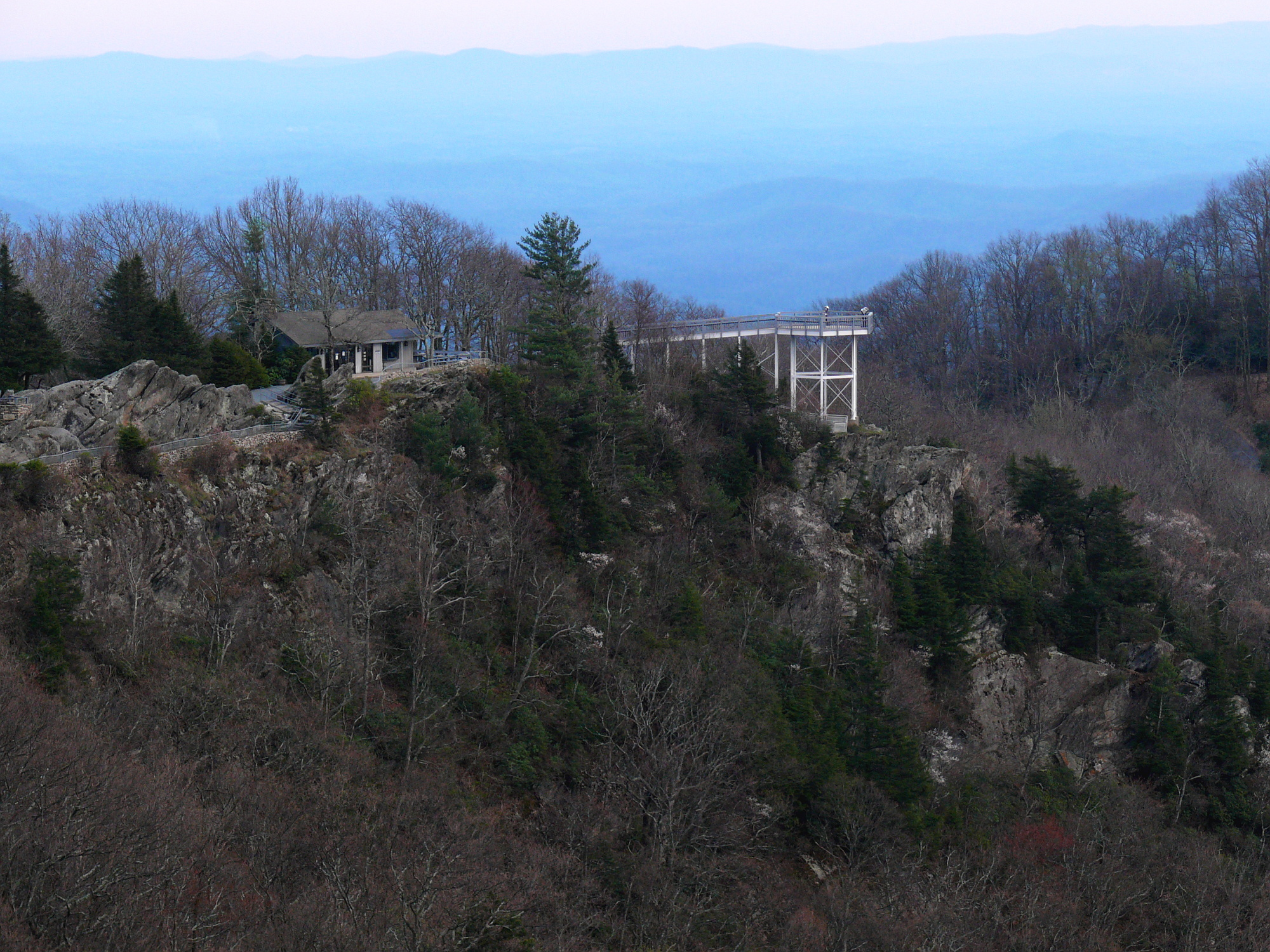 The cliffs, rocks, gift shop, and observation deck at Blowing Rock. Photo taken with a Panasonic Lumix DMC-FZ50 in Watauga County, NC, USA.